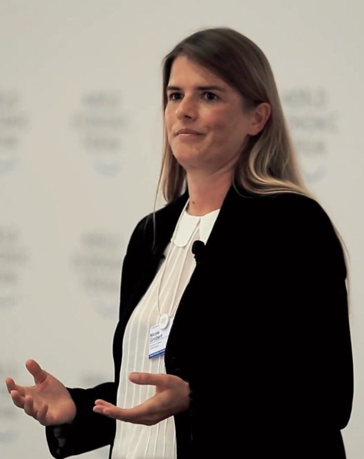 Do nanotechnologies have the potential to solve society's big problems? Professor Nicole Grobert, from the University of Oxford, thinks they do. She shares an insight into how high-quality nanomaterials could move from the lab to real life.